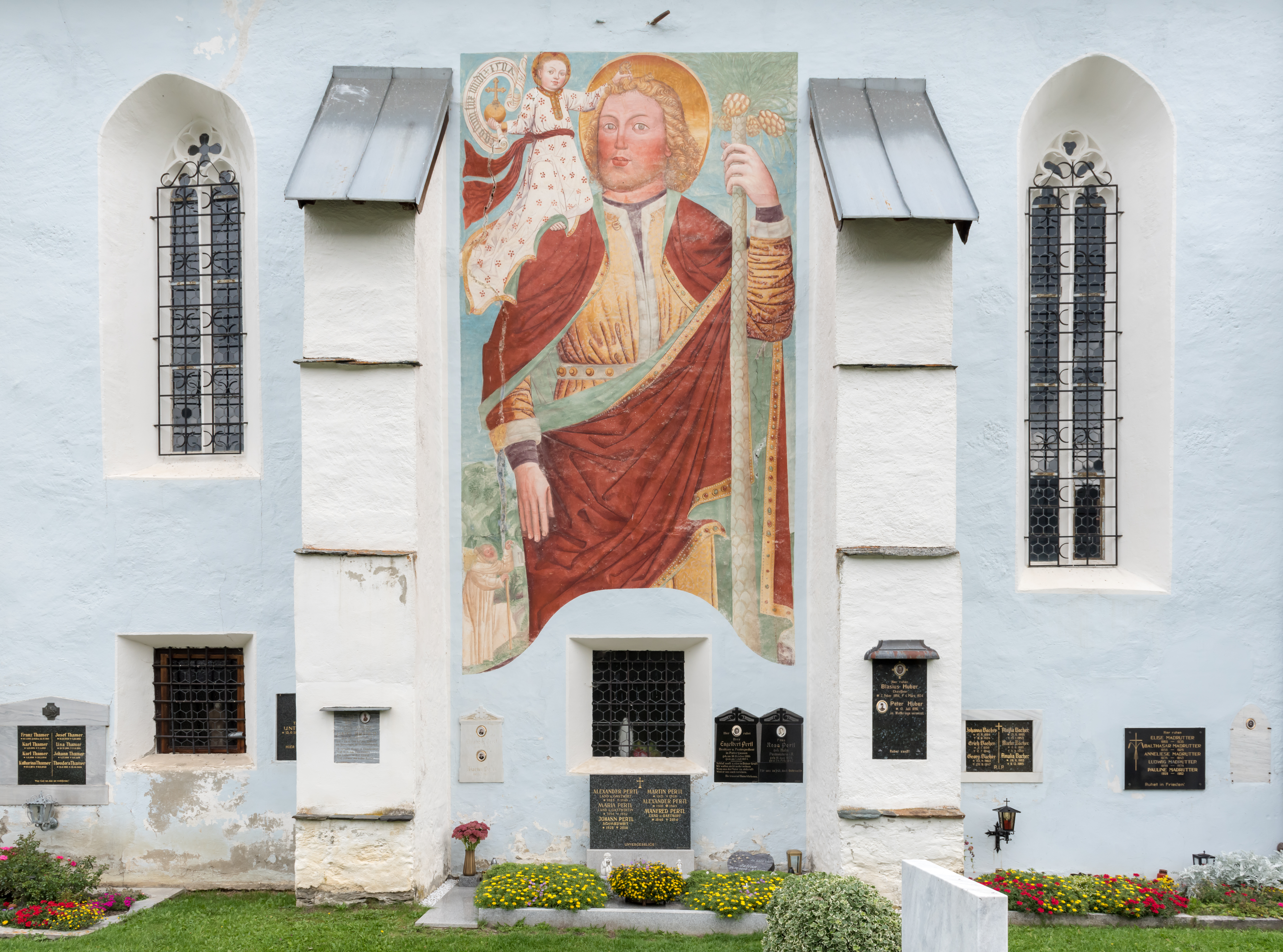 Fresco of Saint Christopher at the Roman Catholic parish church Saint Margaret in Sankt Margarethen #1, municipality Reichenau, district Feldkirchen, Carinthia, Austria, EU